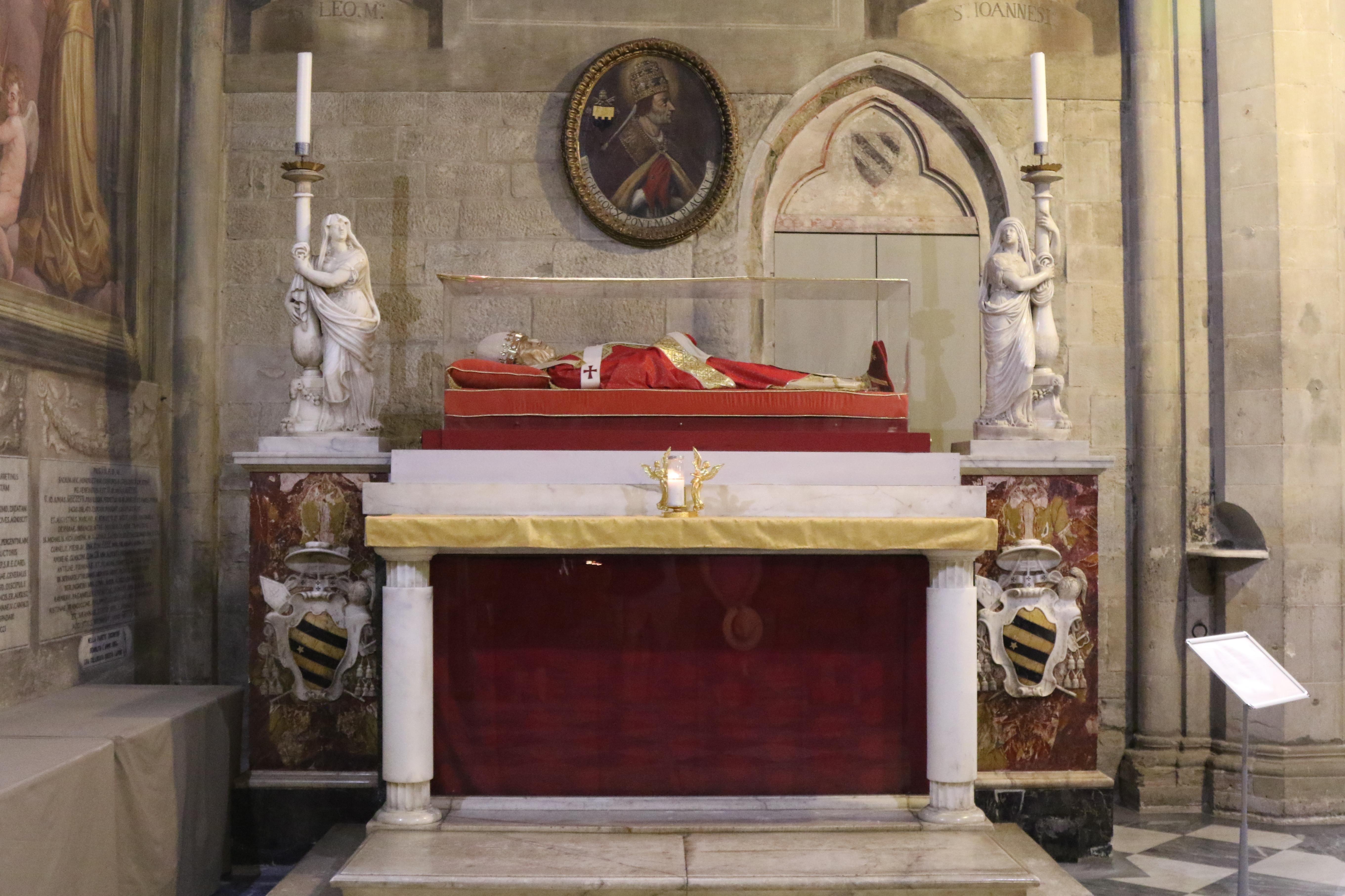 Tomb of Pope Gregory X